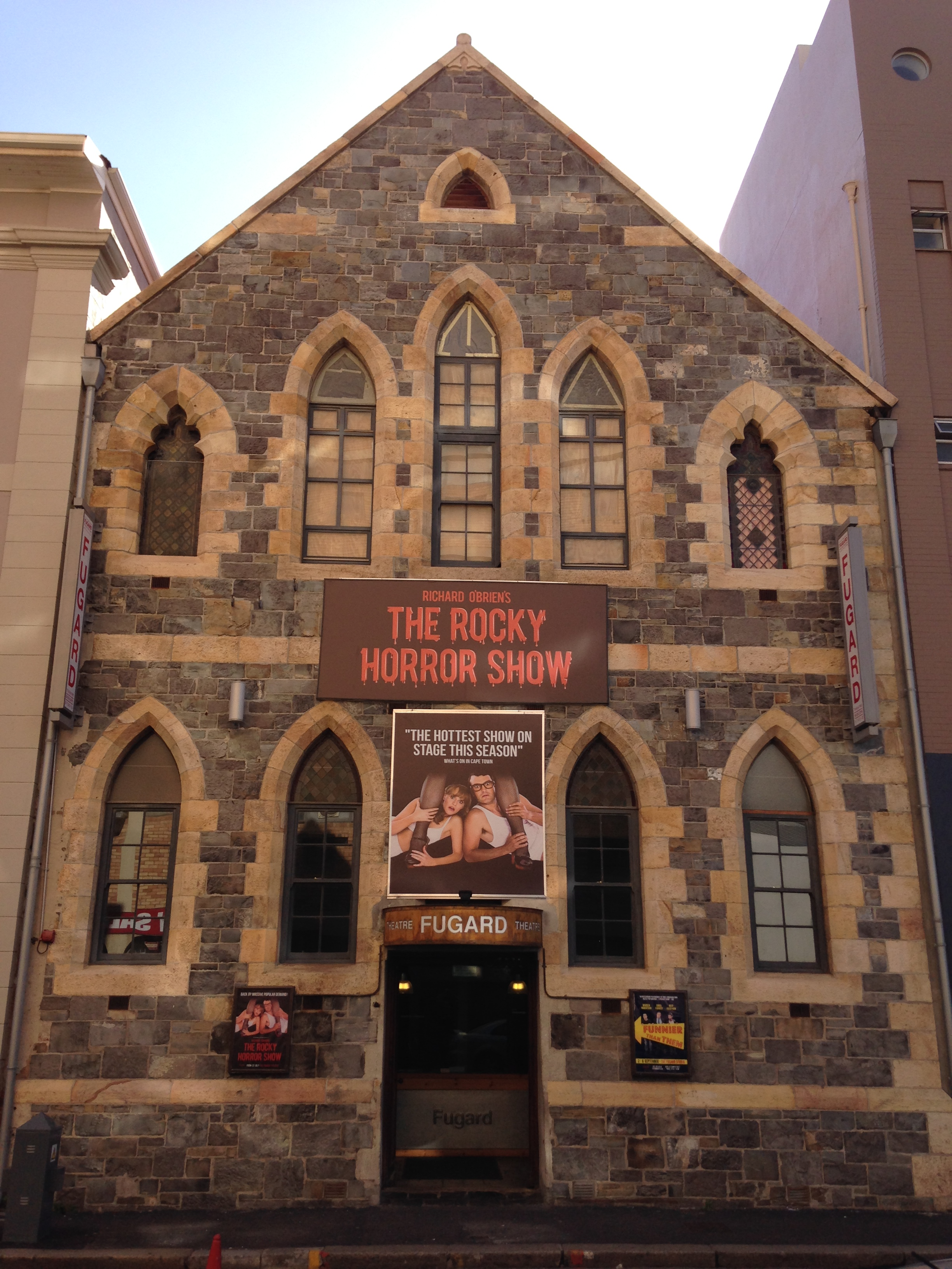 The Fugard Theatre in Cape Town is housed in an old converted church. This media shows a South African Protected Site with SAHRA file reference New.